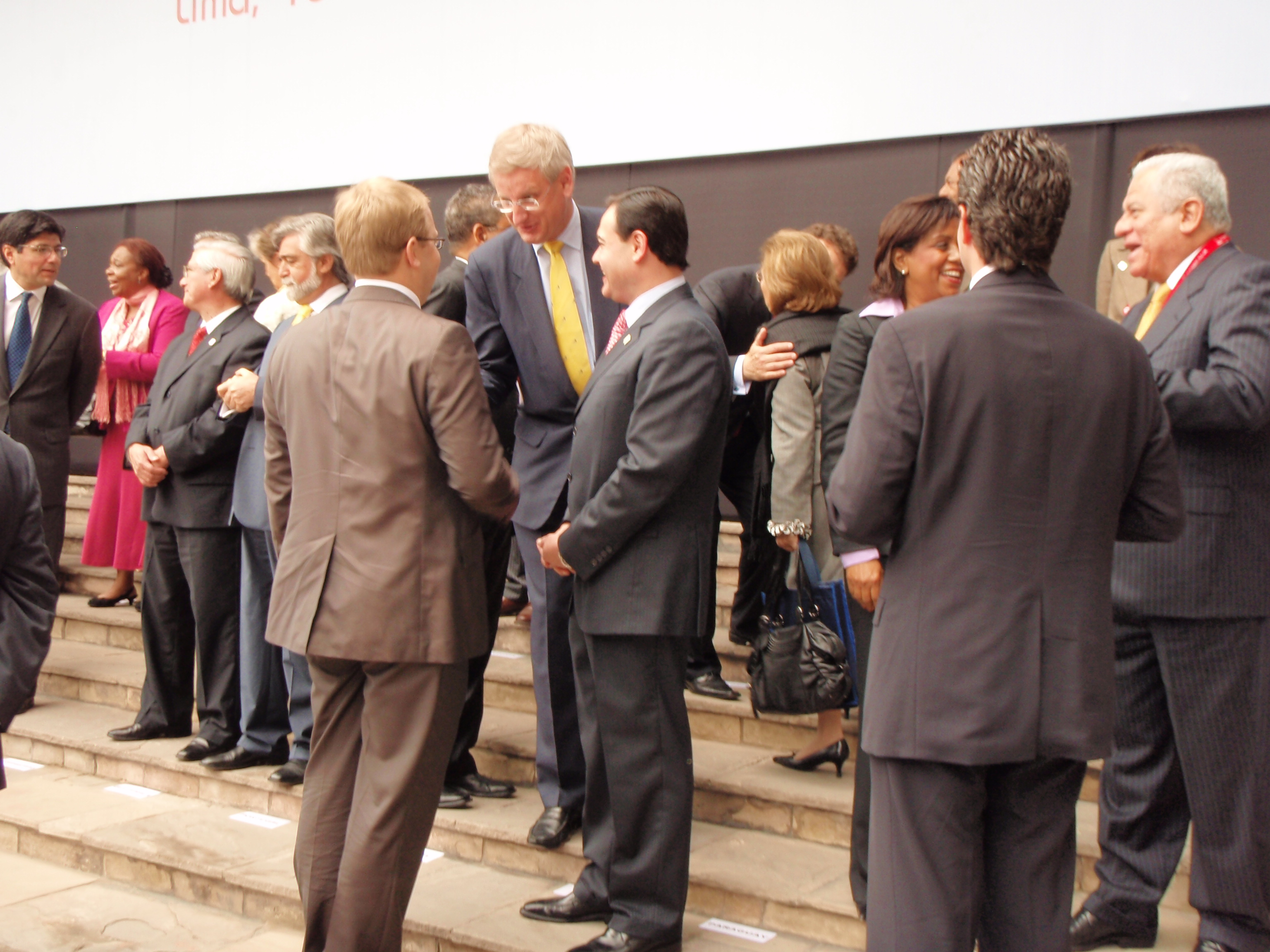 EU-Latin America-Caribbean Summit in Lima